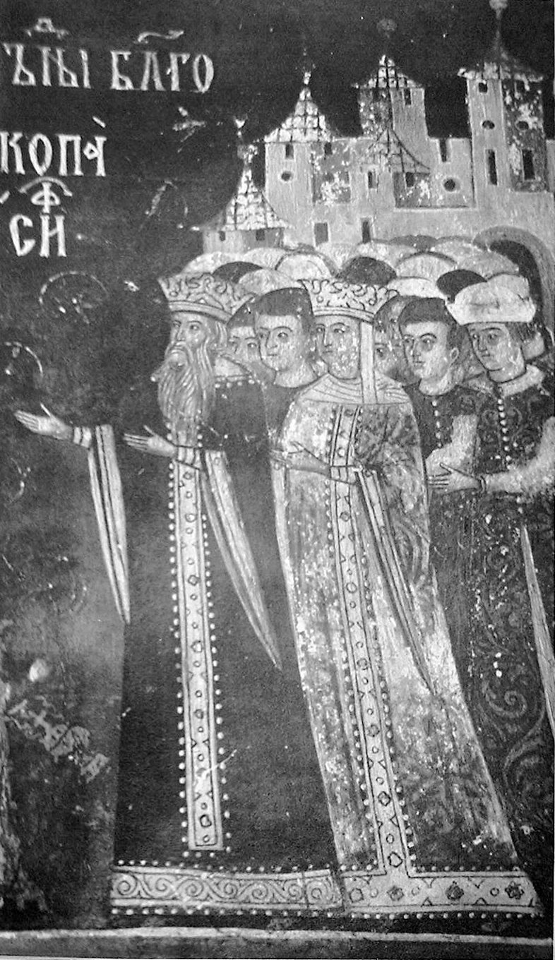 Fresco of Alexander the Good (Alexandru cel Bun) and his consort Lady Ana at Suceviţa Monastery in Romania.